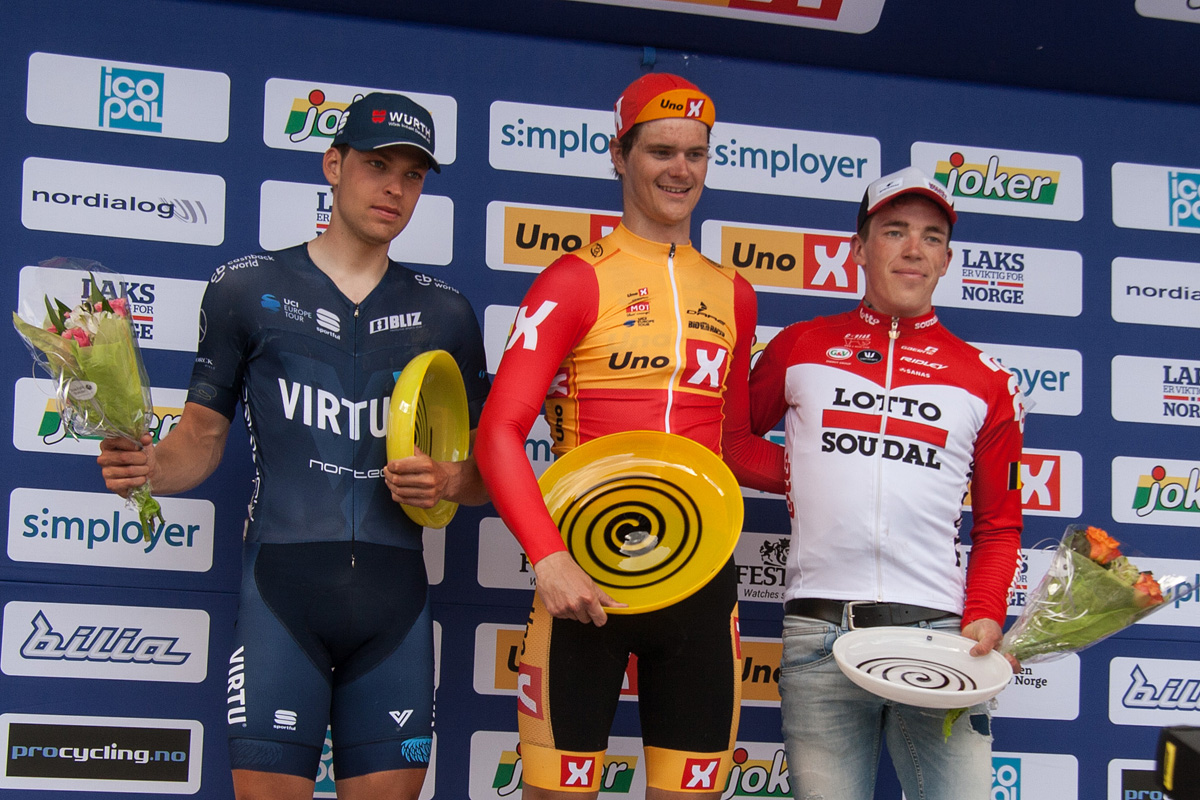 Podiums at Ringerike Grand Prix 2018. From left: Alexander Kamp (2nd), Syver Wærsted (1st), Stan Dewulf (3rd).